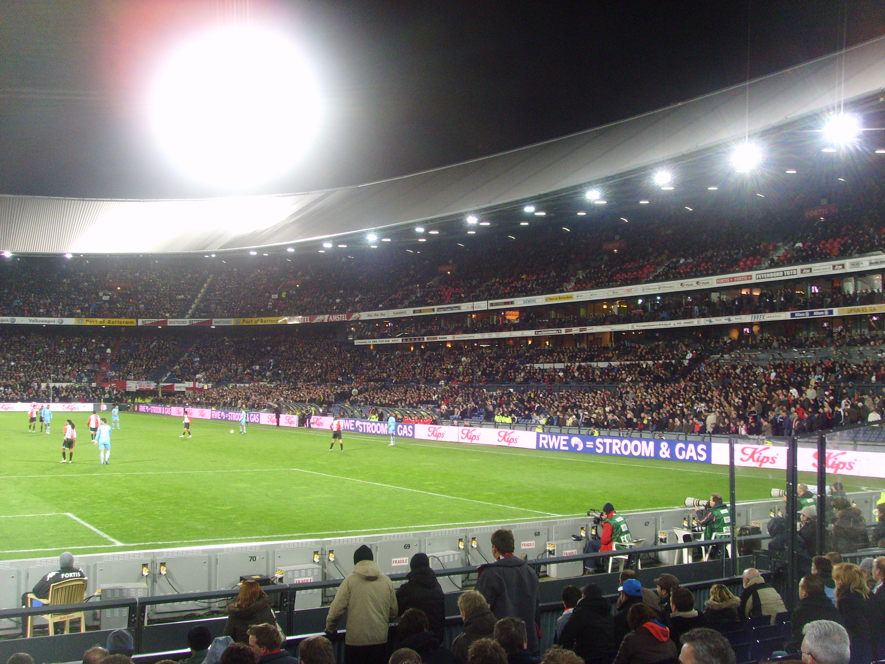 The Kuip at night during the Feyenoord - FC Twente match (3-1) on January 24th, 2008